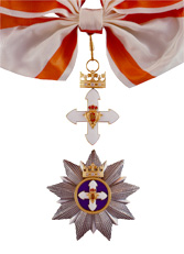 Source: [1]